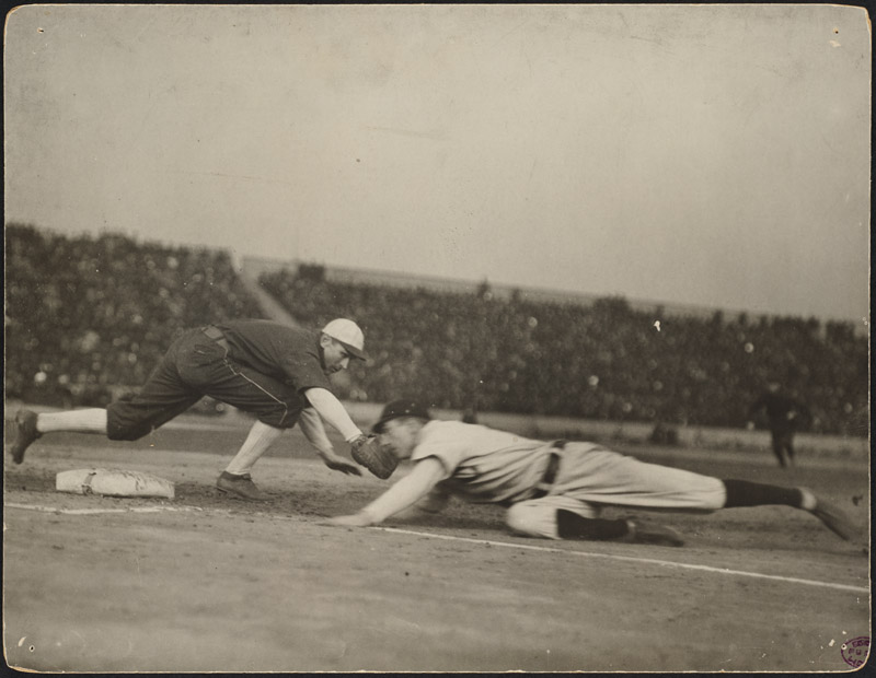 Accession No.: 06_06_000023 Title: Pick-off attempt at first, 1906 World Series Creator: unidentified Date: 1906 Format: photograph Description: Chicago Cubs first baseman Frank Chance, slides safely into first as Jiggs Donahue of the Chicago White Sox tries to apply the tag. During World Series game at West Side Grounds. BPL Collection: McGreevey Collection BPL Department: Print Subject: Baseball--History World Series (Baseball) (1907) Detroit Tigers (Baseball team) Chicago Cubs (Baseball team) Baseball players